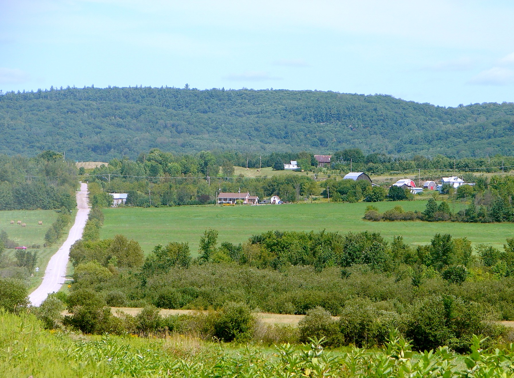 Rural scene in Litchfield Municipality with Vinton in the background, Quebec, Canada